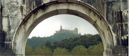 Castle viewed through masonary arch